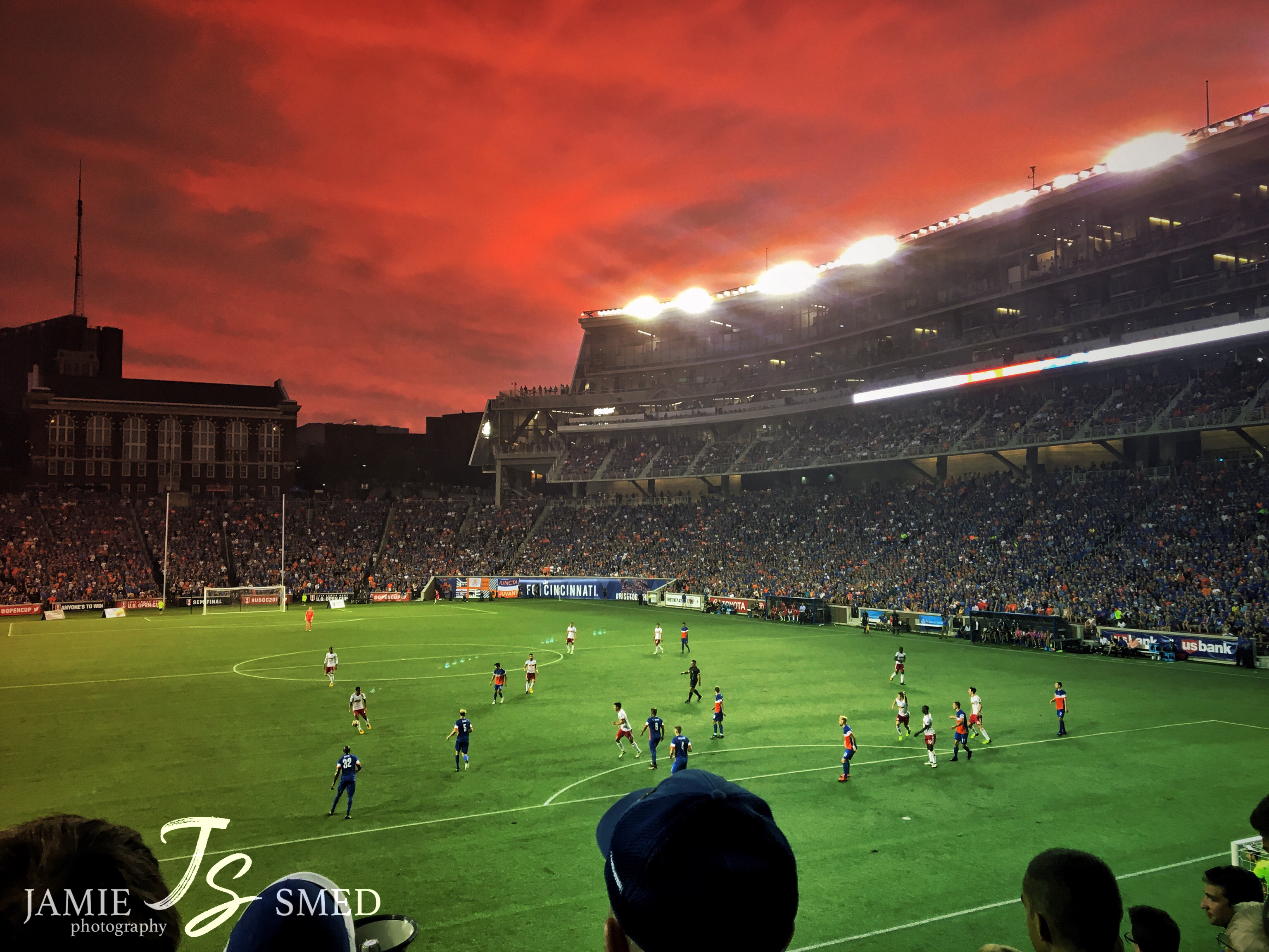 Taken at the 2017 U.S. Open Cup national semifinal match of New York Red Bulls at FC Cincinnati in Nippert Stadium on August 15, 2017.